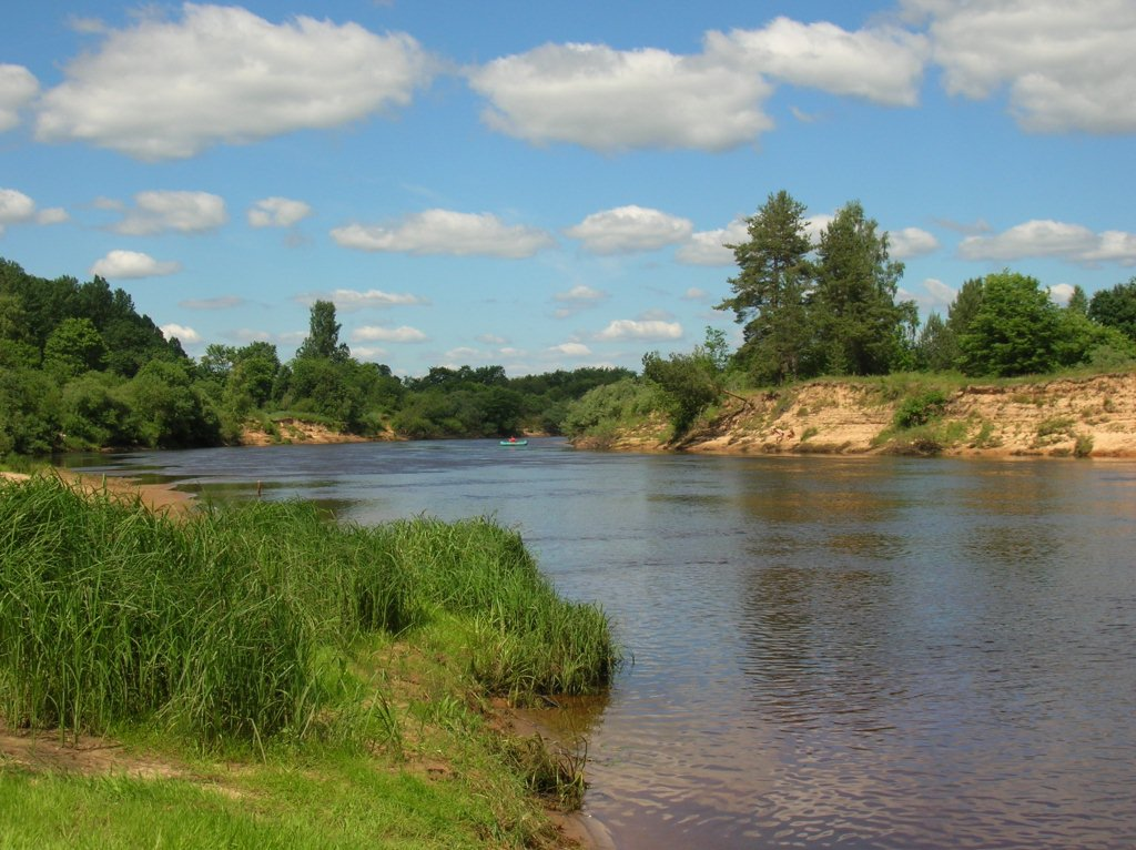 Zelezo 4